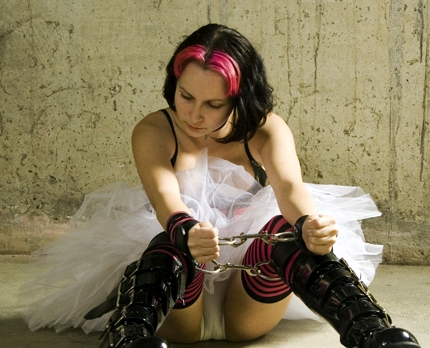 Sush DTC, alternative Ballerina